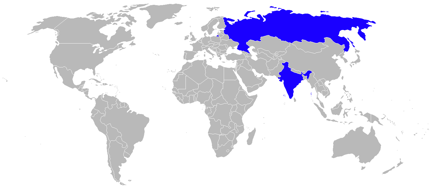 Mikoyan MiG-29K Operators 2010